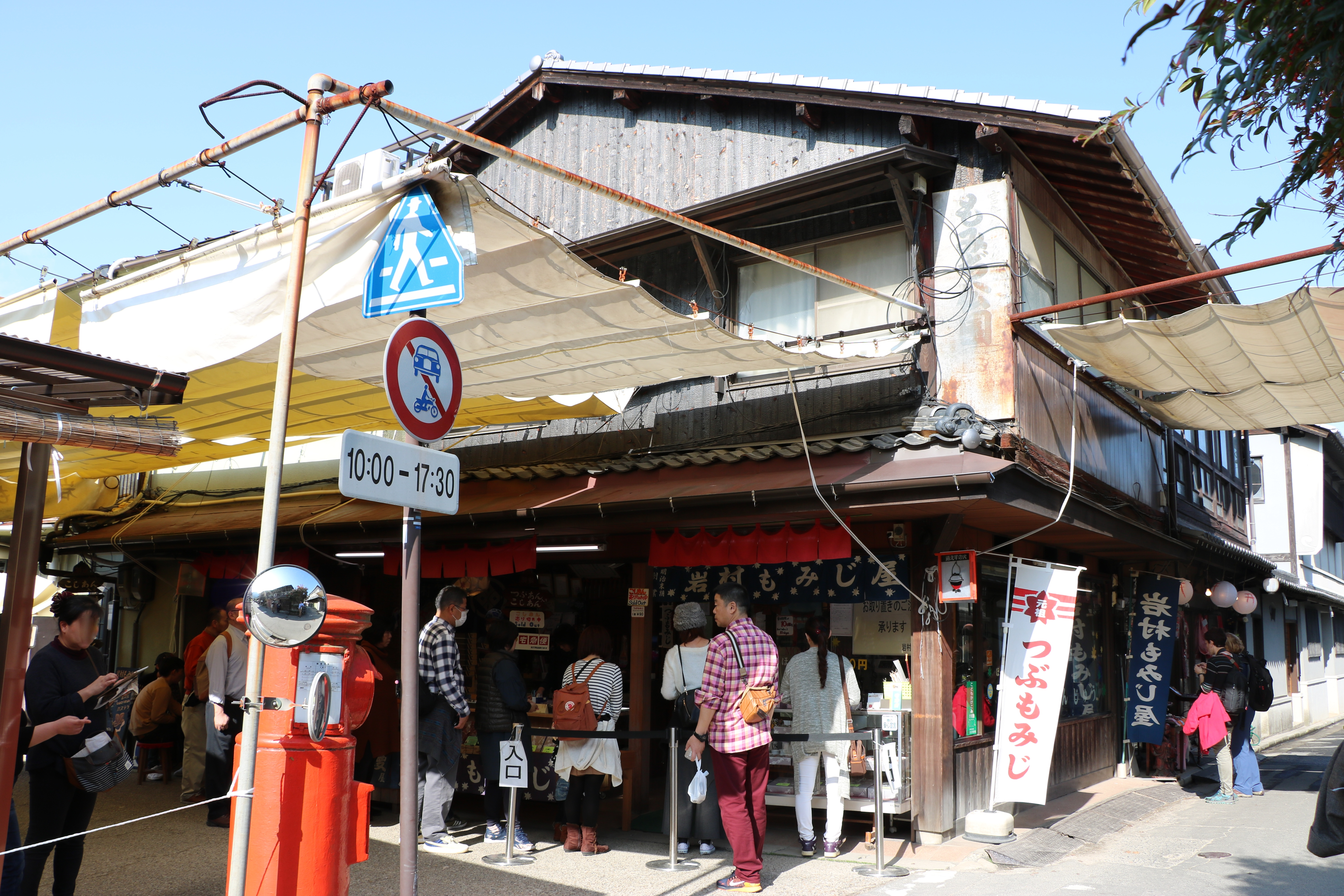 Iwamura - Momijiya. Famous shops of Momiji Manju located in Miyajima.